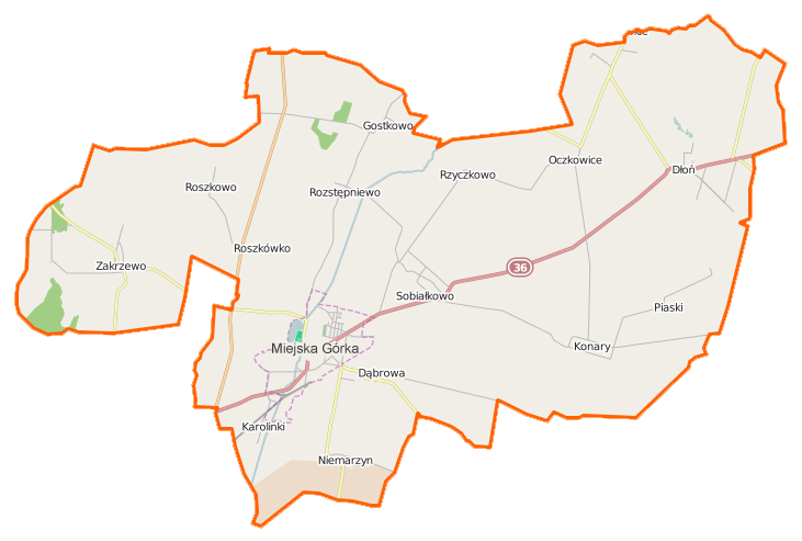 Map of Gmina Miejska Górka, Poland This map of Miejska Górka (gmina) was created from OpenStreetMap project data, collected by the community. This map may be incomplete, and may contain errors. Don't rely solely on it for navigation. Border coordinates51.722316.8578←↕→17.108851.6176